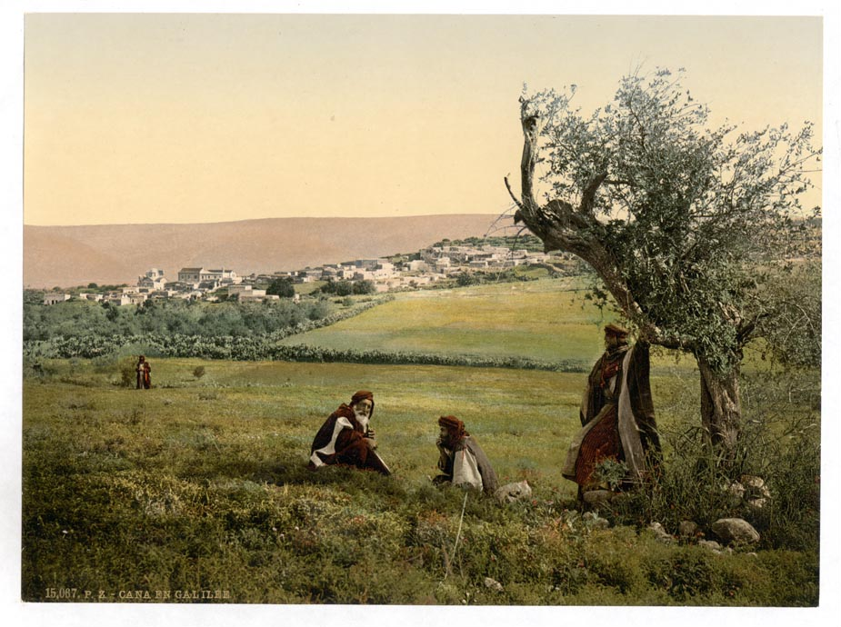 General view Cana of Galilee Holy Land